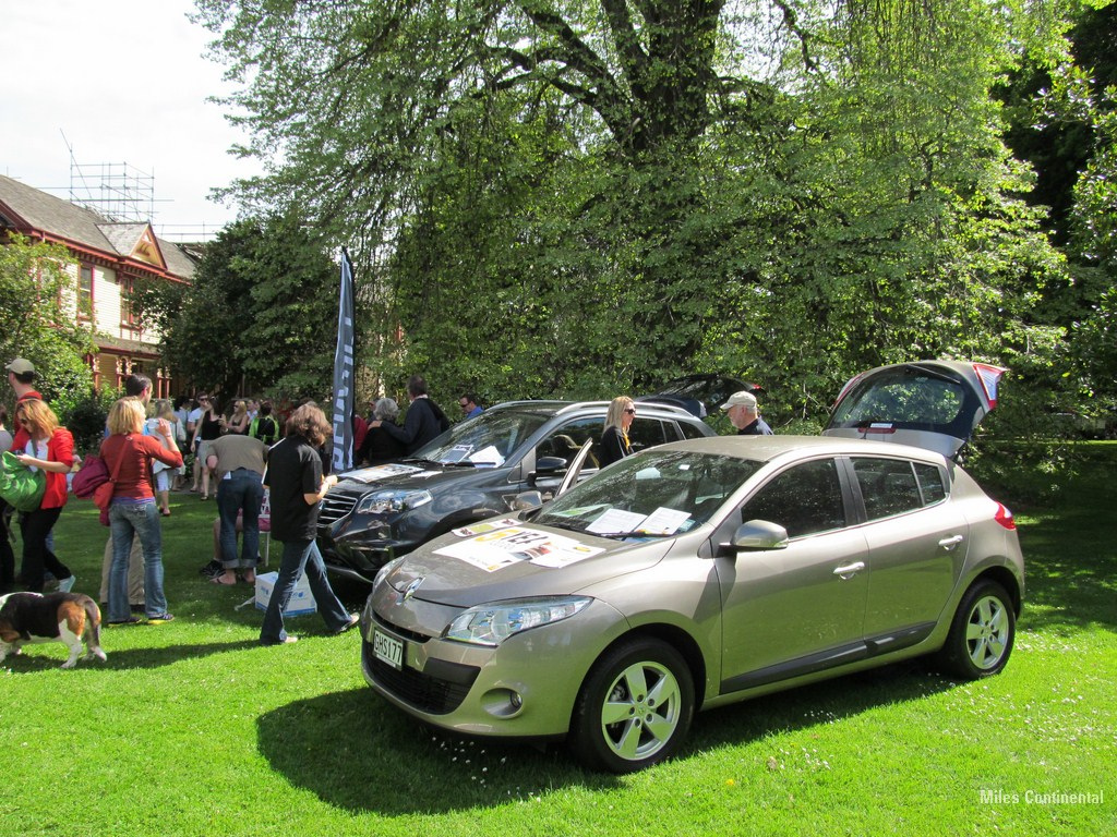 Photos from the Christchurch Farmers' Market. Miles Continental attended and took along two brand new Renault cars to show-off to the crowds!